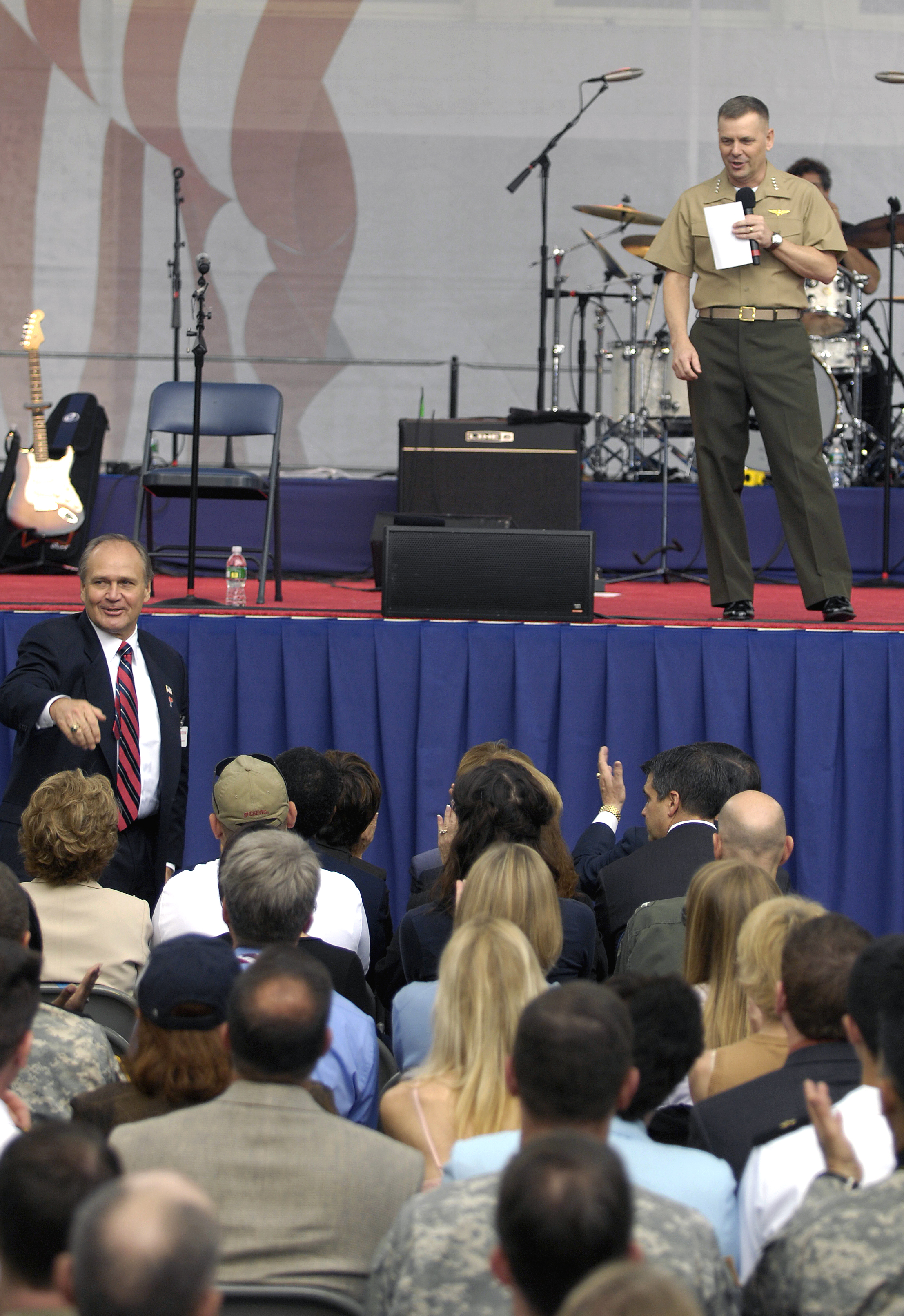 Vice Chairman of the Joint Chiefs of Staff Marine Gen. James E. Cartwright introduces Bob Nardelli, chairman and chief executive officer of Chrysler, prior to the kickoff of the 4th Annual America Supports you concert at the Pentagon, May 16, 2008.